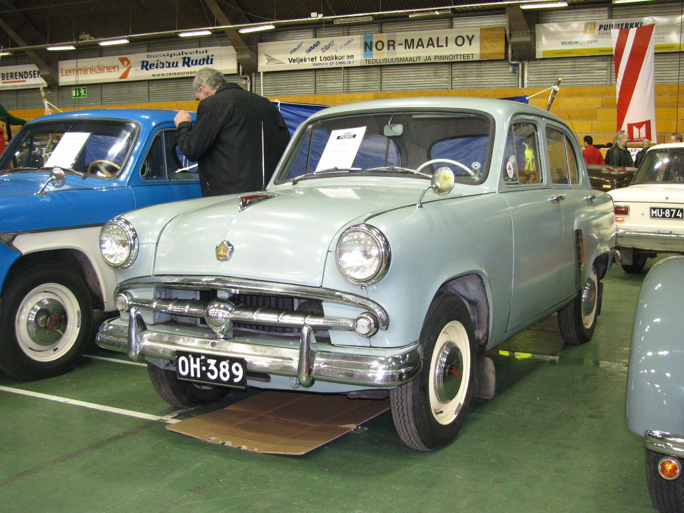 Moskvich 402 car, Classic Motor Show in Lahti, Finland.